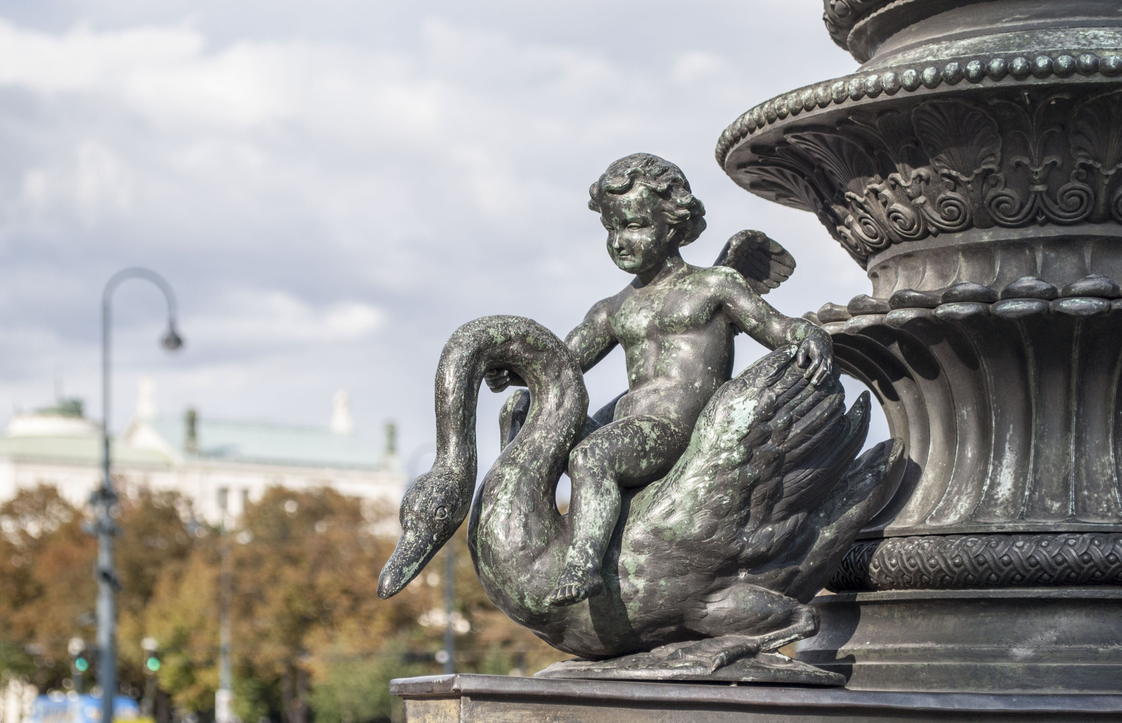 Cupid on a swan - Exterior of the Austrian Parliament Building